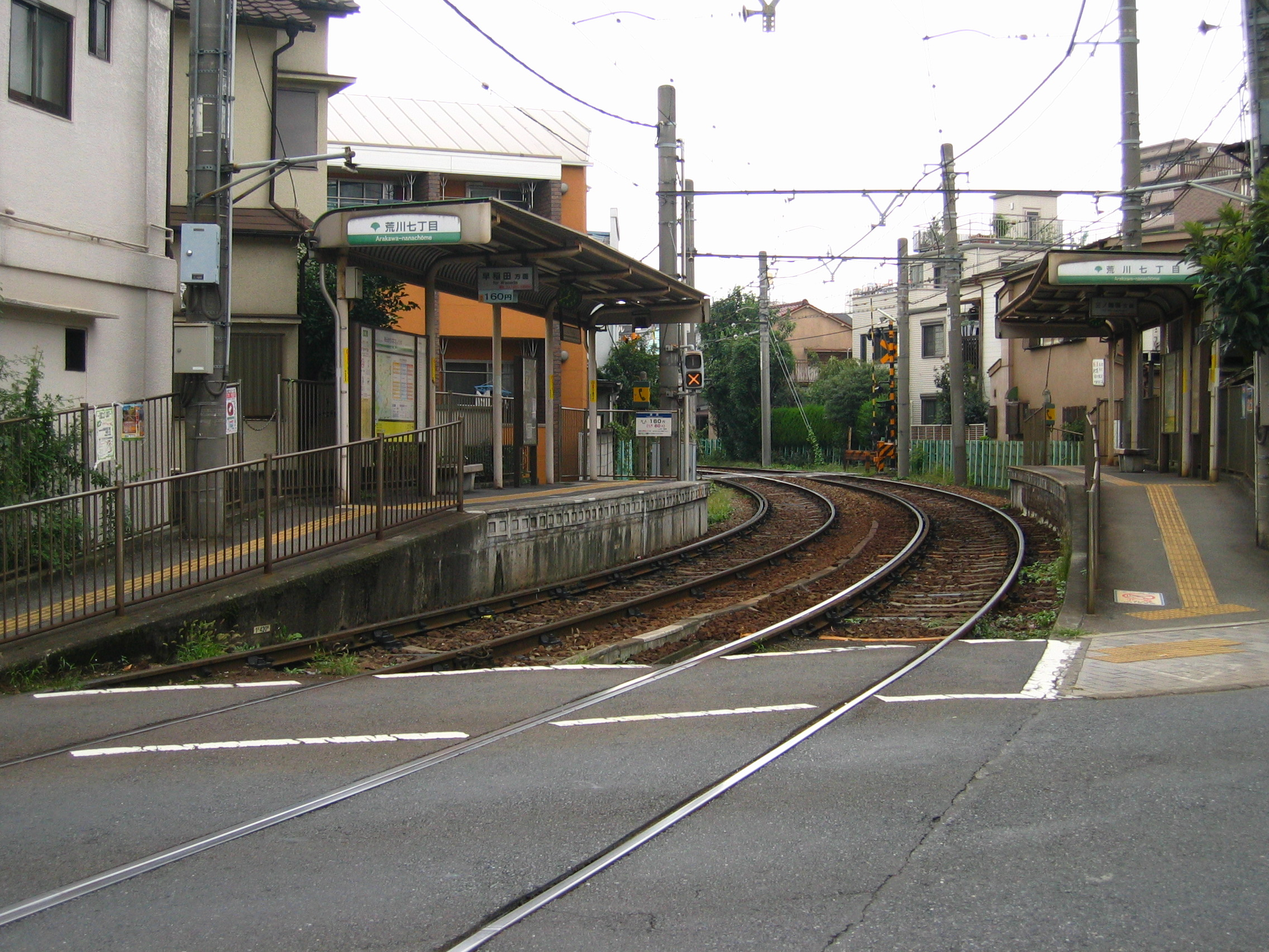 Toden Arakawa Line,Arakawa Nanachōme Station. (Tokyo, Japan)